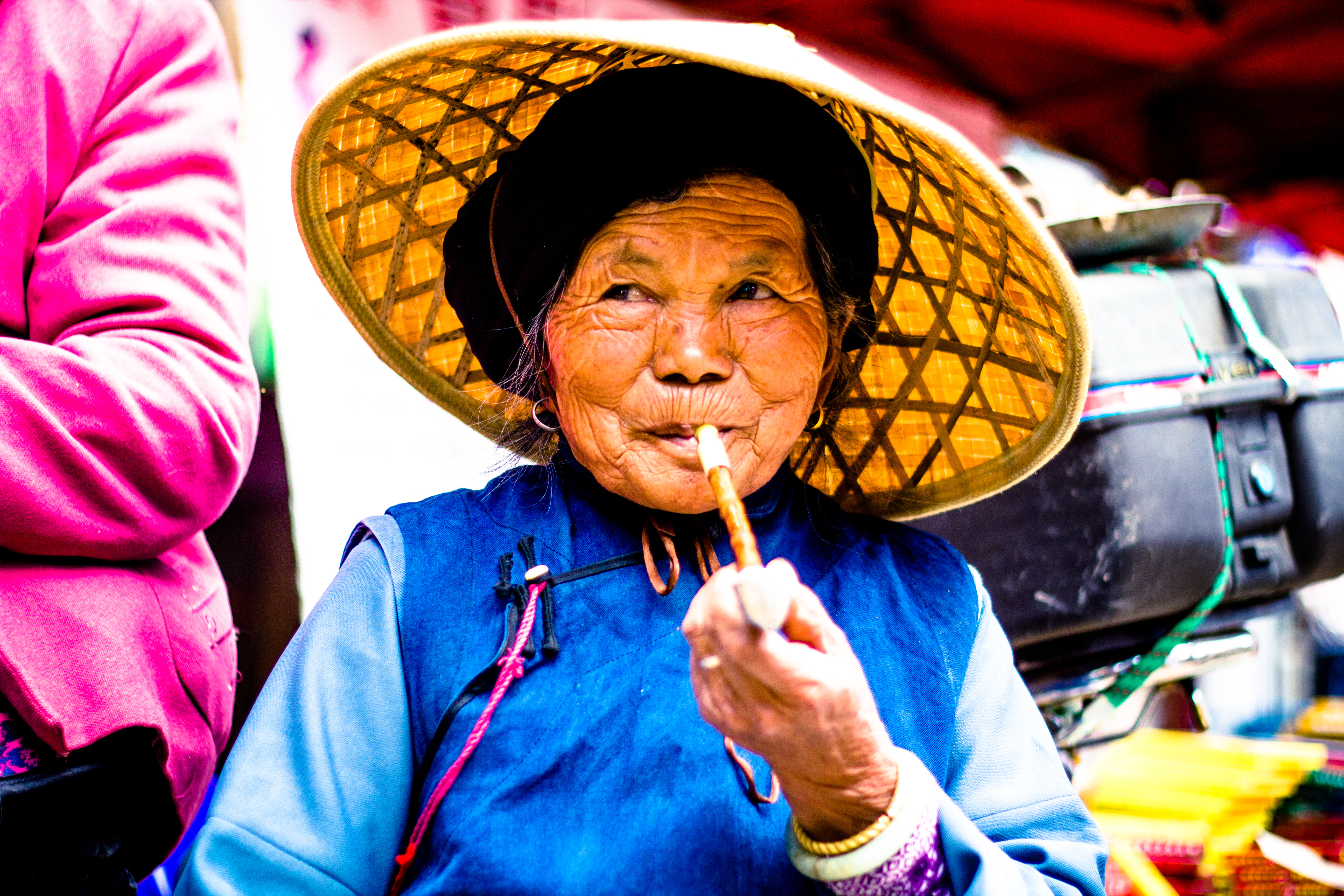 A elderly woman of the Bai ethnic group, dressed in traditional garb and smoking a pipe.